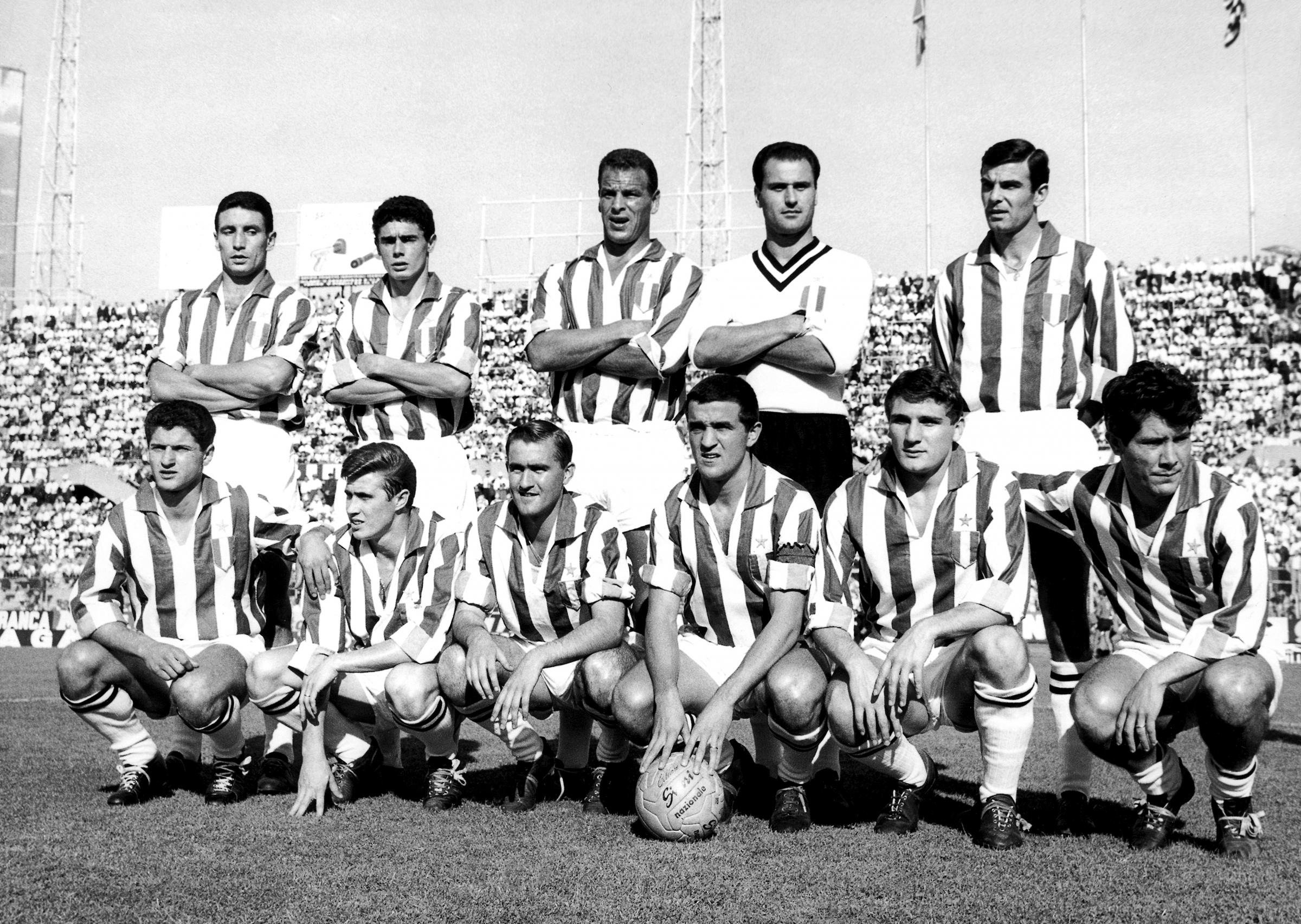 A line-up of Juventus F.C. in the 1961–62 season, posing inside the Communal Stadium in Turin, Italy. From left to right, standing: B. Garzena, B. Mora, J. Charles, G. Gaspari, G. Bozzao; crouched: B. Mazzia, B. Sarti, G. Rossano, F. Emoli (captain), G. Leoncini, O. Sívori.